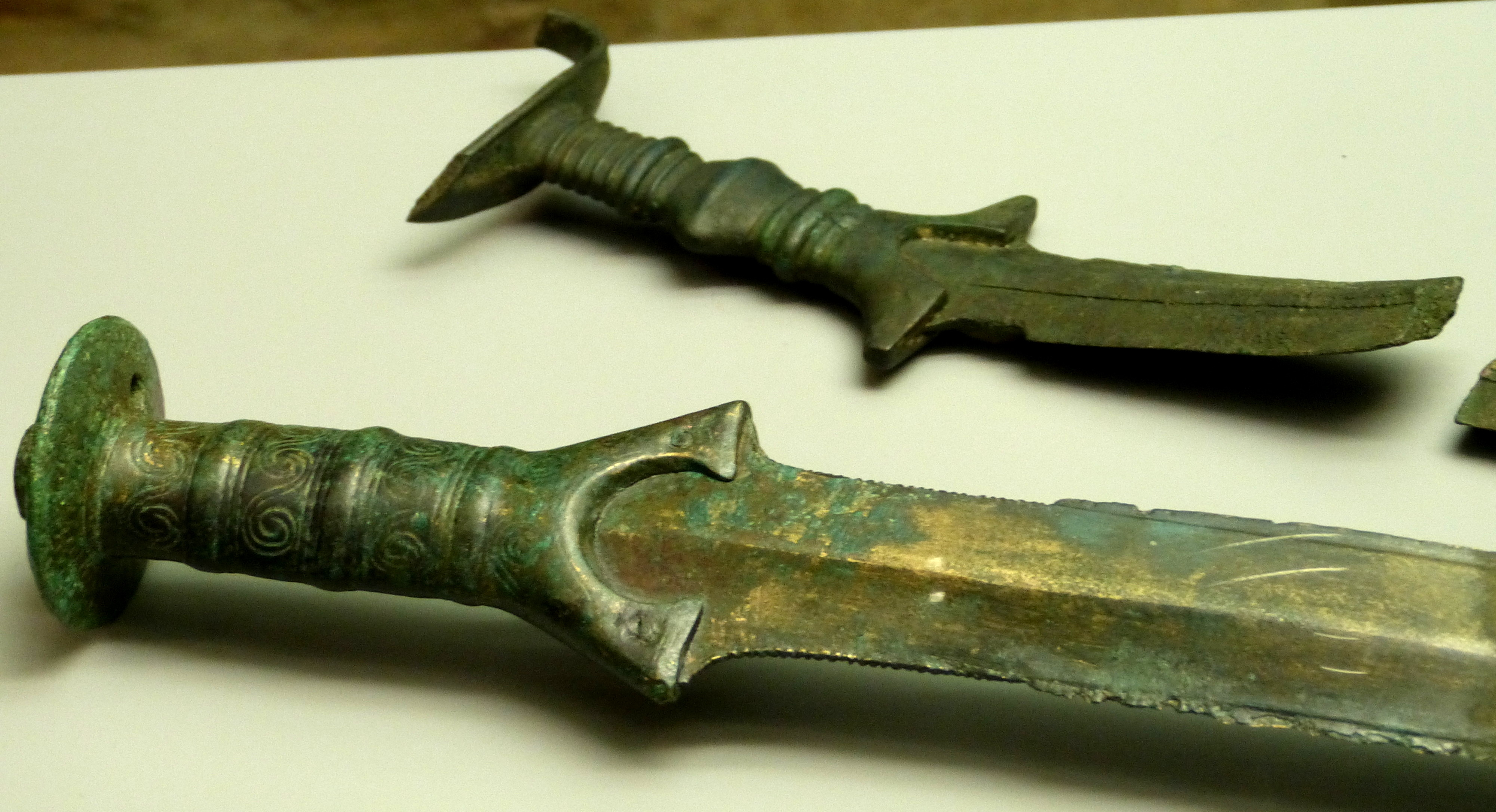 Landau an der Isar ( Lower Bavaria ). Archaeological Museum of Lower Bavaria: Urnfield culture bronze antenna sword from Hienheim and bronze sword from Straubing.